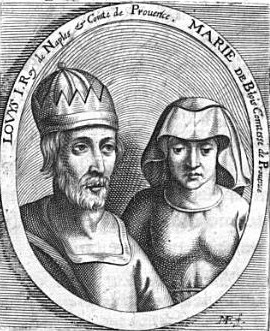 Marie de Blois-Châtillon and Louis I of Naples